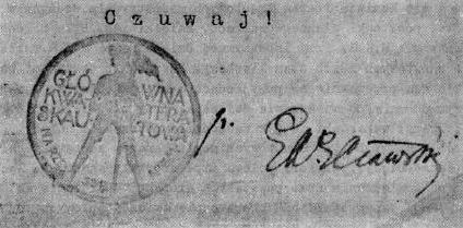 Reproduction of the seal of the Headquater of Scouts on the German Reich